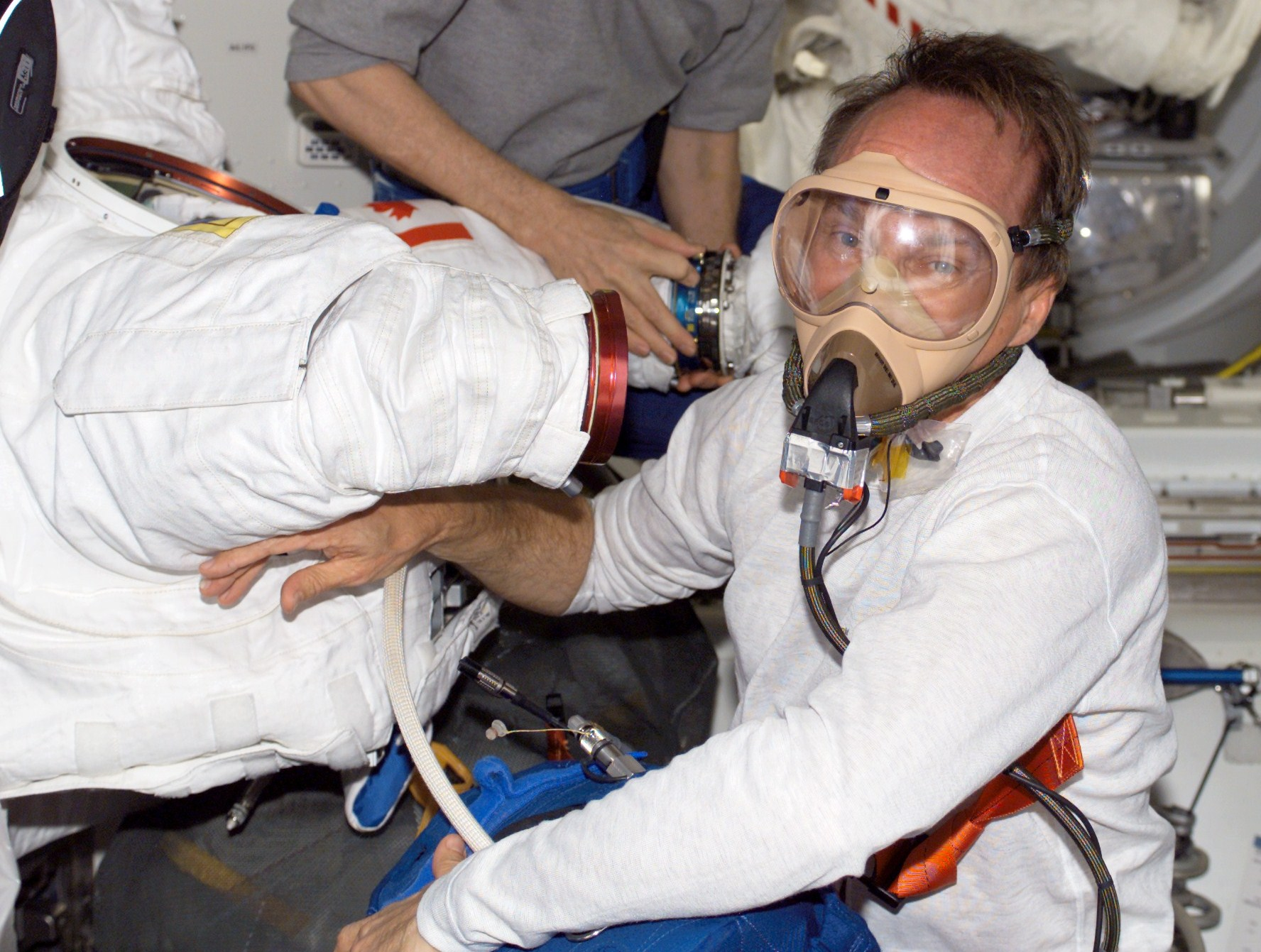 S115-E-05766 (12 Sept. 2006) --- Astronaut Steven G. MacLean, STS-115 mission specialist representing the Canadian Space Agency, photographed in the midst of a pre-breathe exercise in the Quest Airlock of the International Space Station in preparation for a session of extravehicular activity (EVA). European Space Agency (ESA) astronaut Thomas Reiter (background) assisted MacLean.